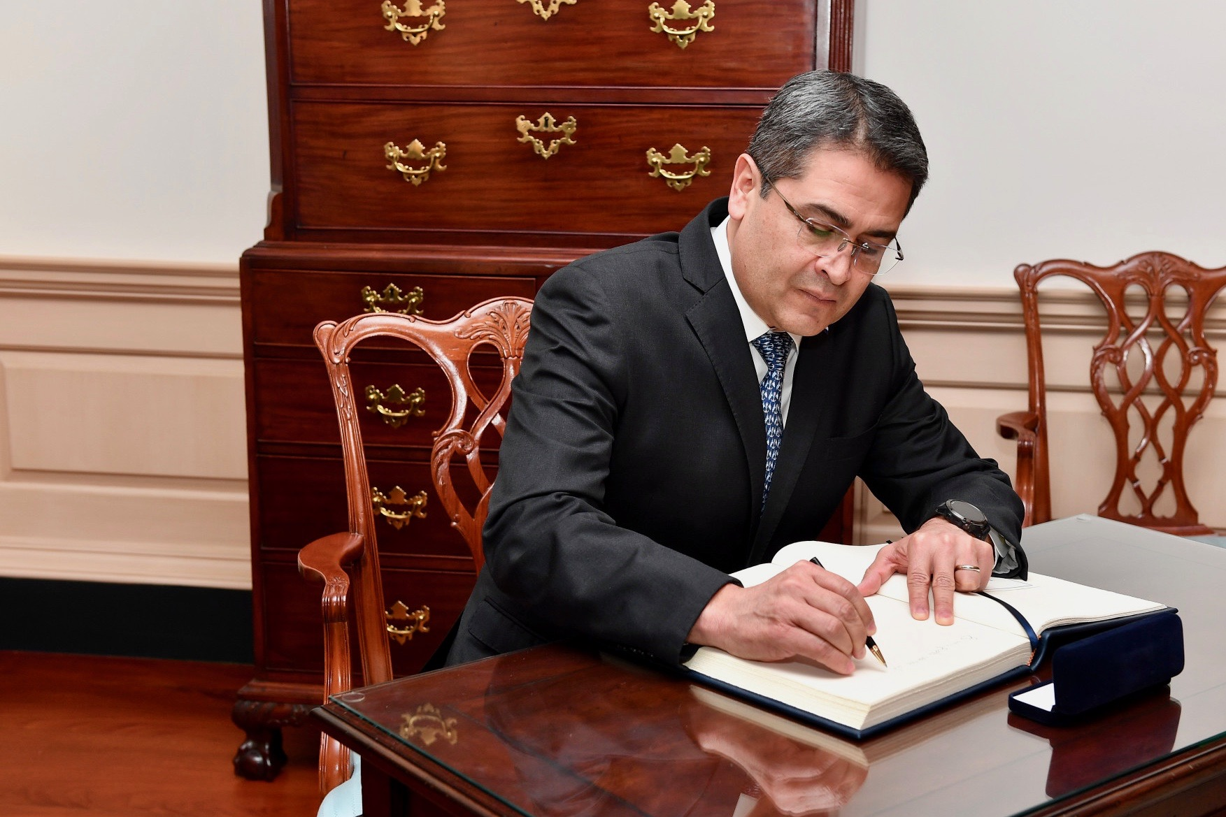 Honduran President Juan Orlando Hernandez signs U.S. Secretary of State Mike Pompeo's guestbook before their meeting at the U.S. Department of State in Washington, D.C., on June 18, 2018. [State Department photo/ Public Domain]